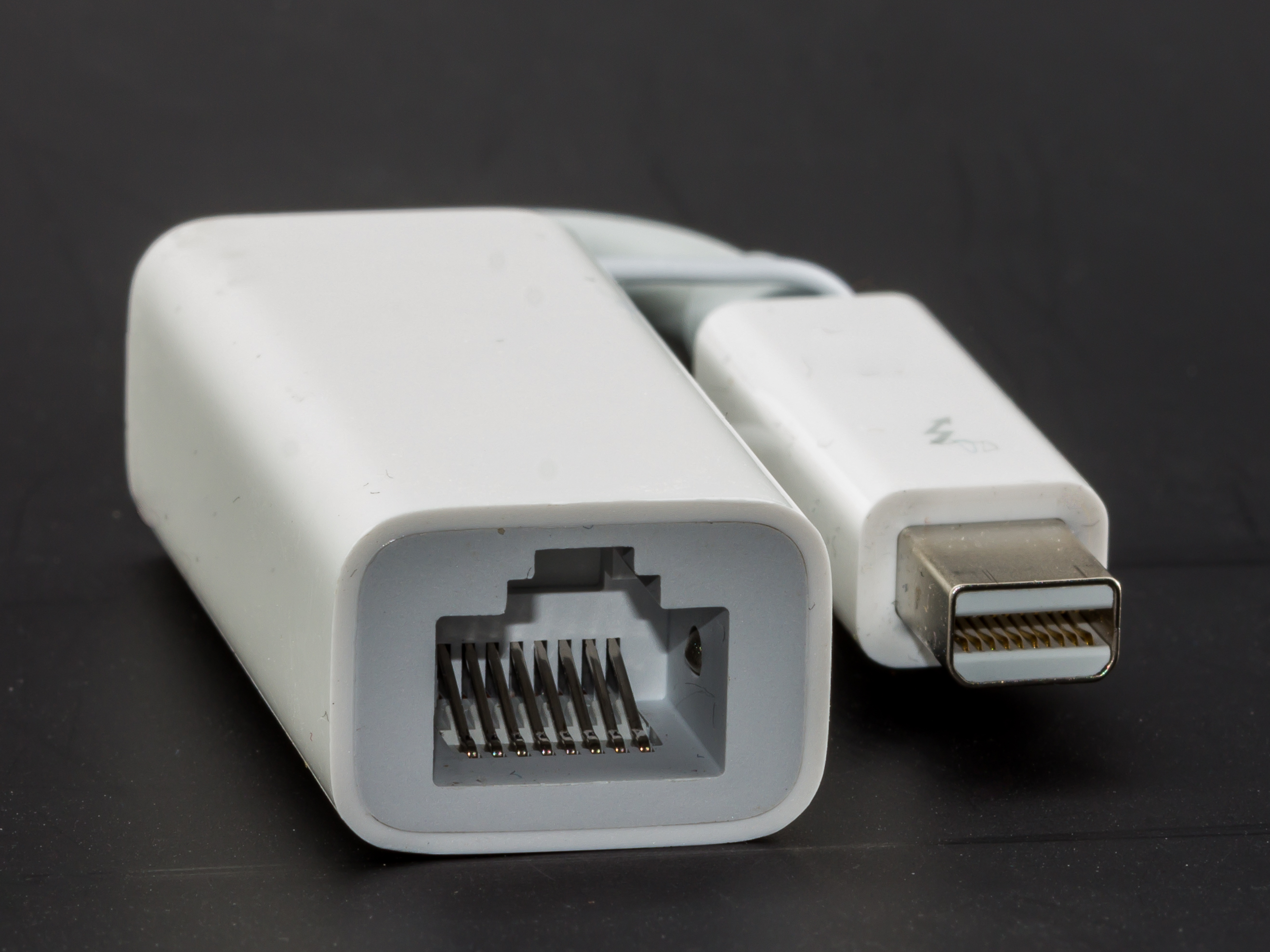 Thunderbolt-Ethernet adapter by Apple, model A1433